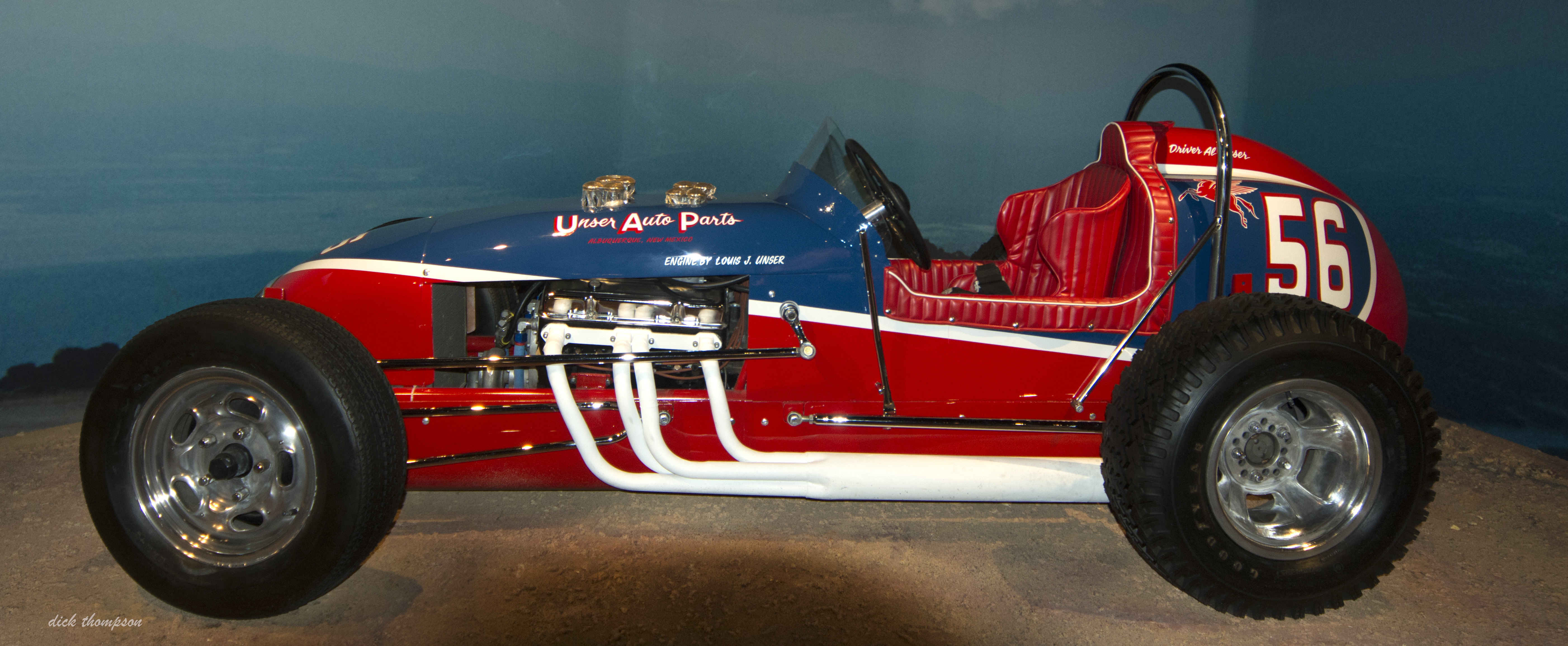 Unser Museum Number 56 Pikes Peak Racing Car. Possibly driven by Al Unser in 1961.